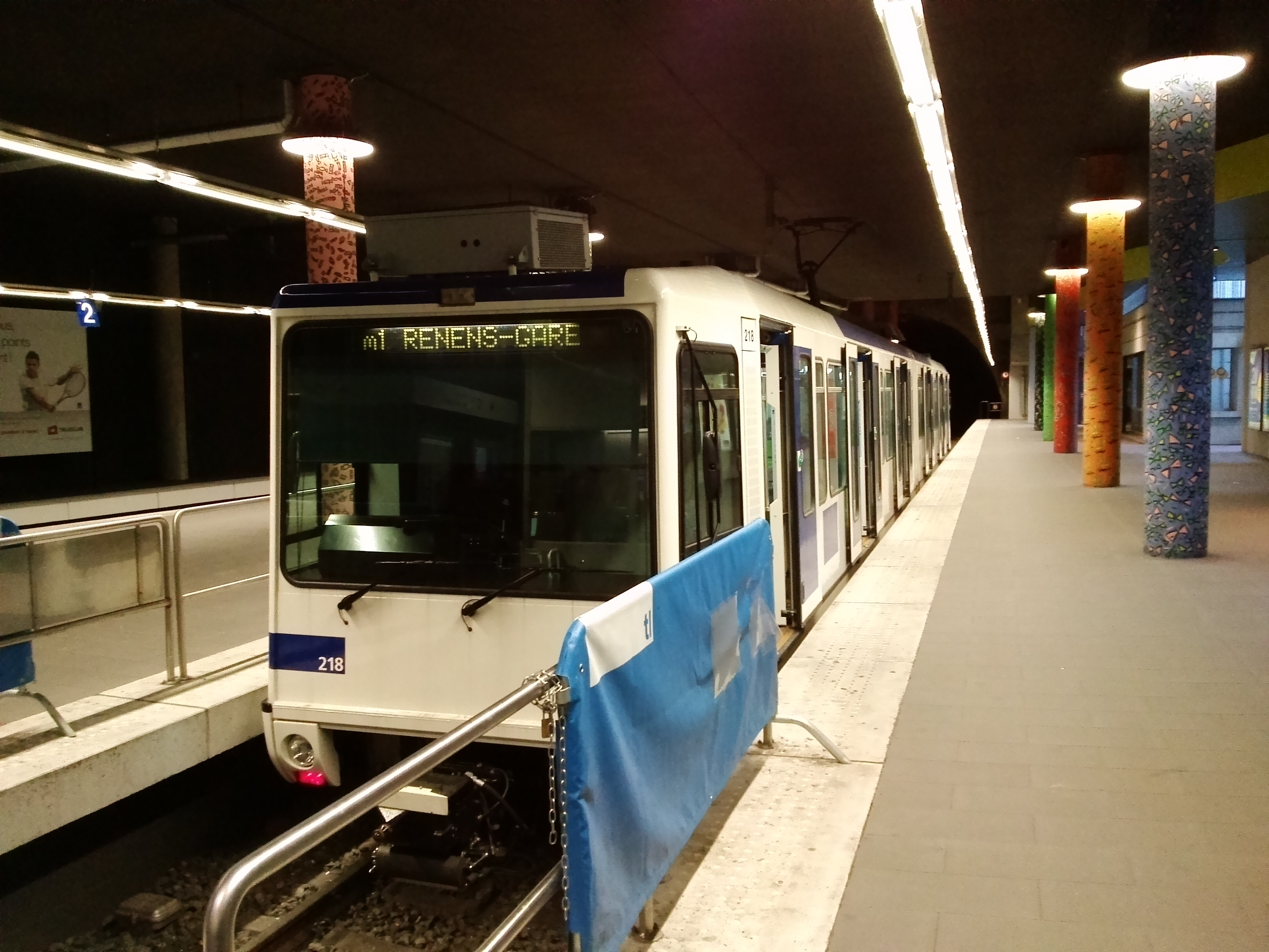 Multiple unit Be 4/6 558 218-1 halted on track 1 at Lausanne-Flon railway station, waiting to run toward Renens VD railway station.